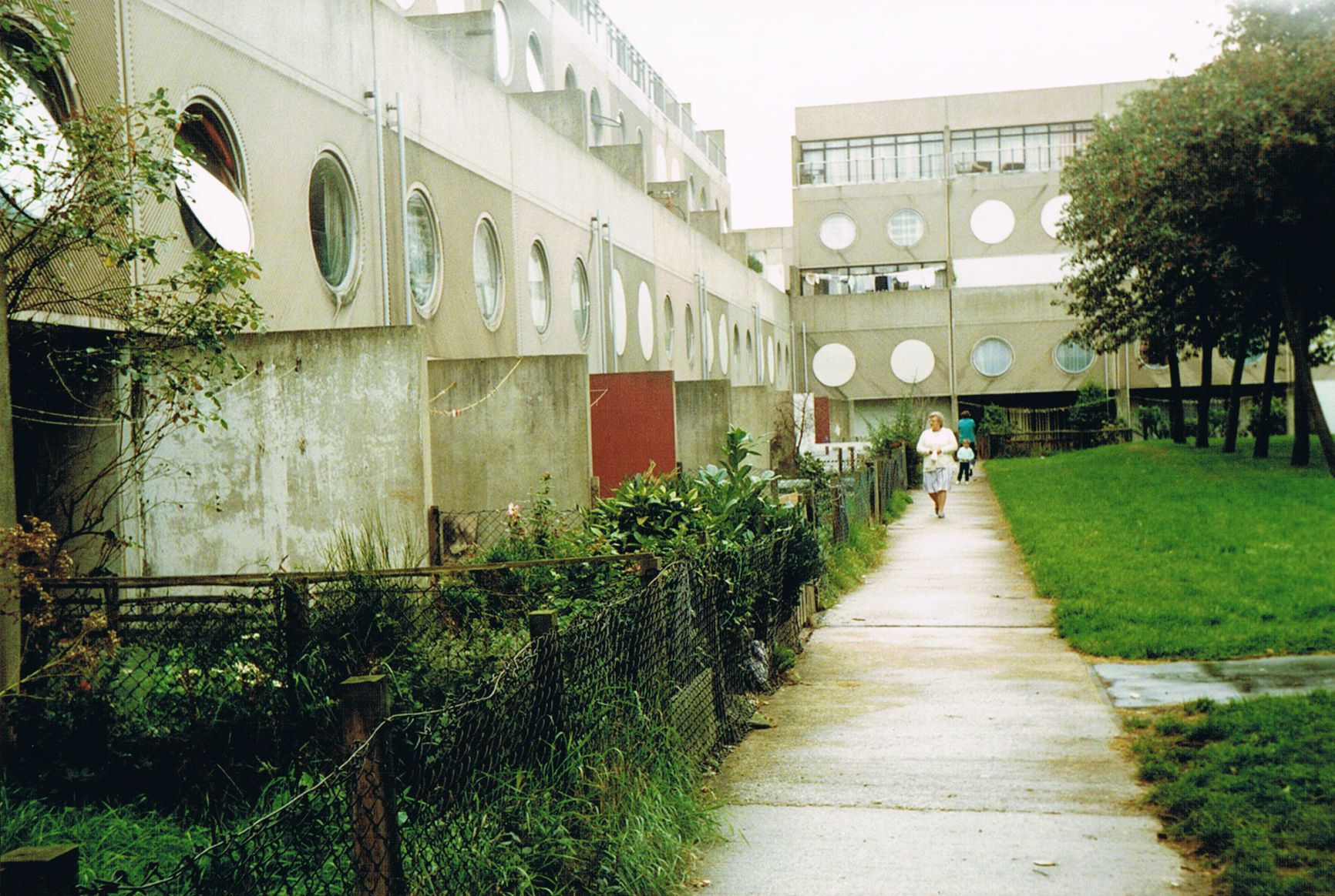 Photo of Southgate Estate in Runcorn, Cheshire, UK, taken in August 1989